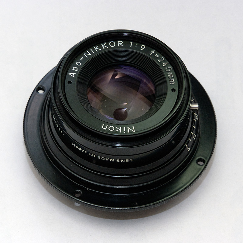 Nikon Apo-NIKKOR 240mm F9